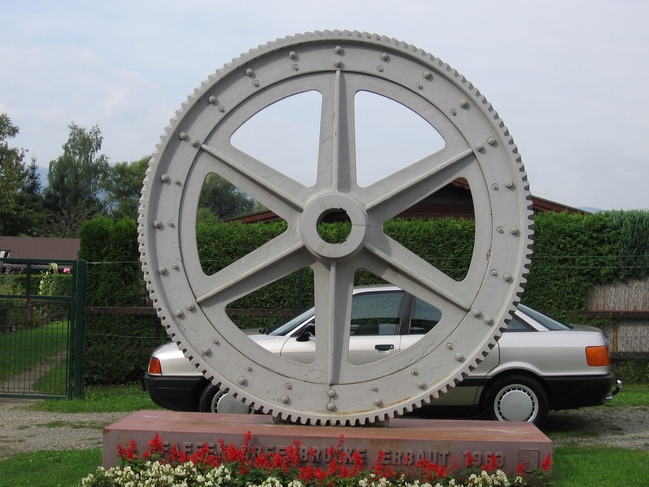 cog wheel, inscription translates to Pfaffendorfer bridge built in 1963